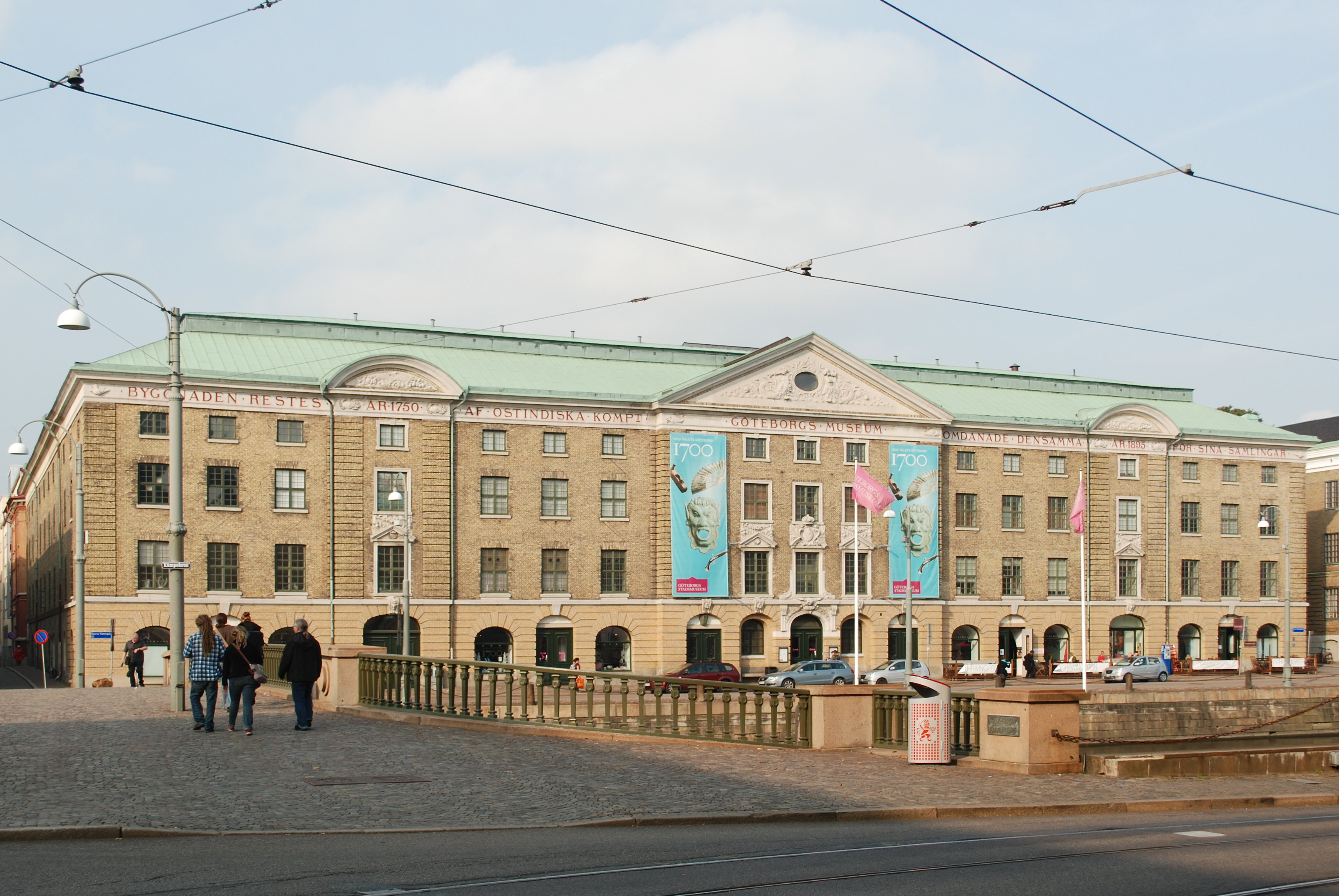 The City Museum of Gothenburg. Located in an eighteenth century house (know as Ostindiska huset, East India building) originally built for the Swedish East India Company.